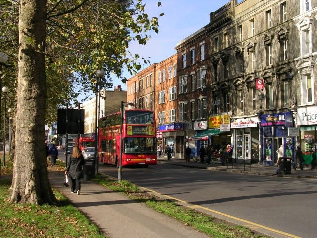 Taken myself from facing northeast from the northern side of Shepherd's Bush Green.